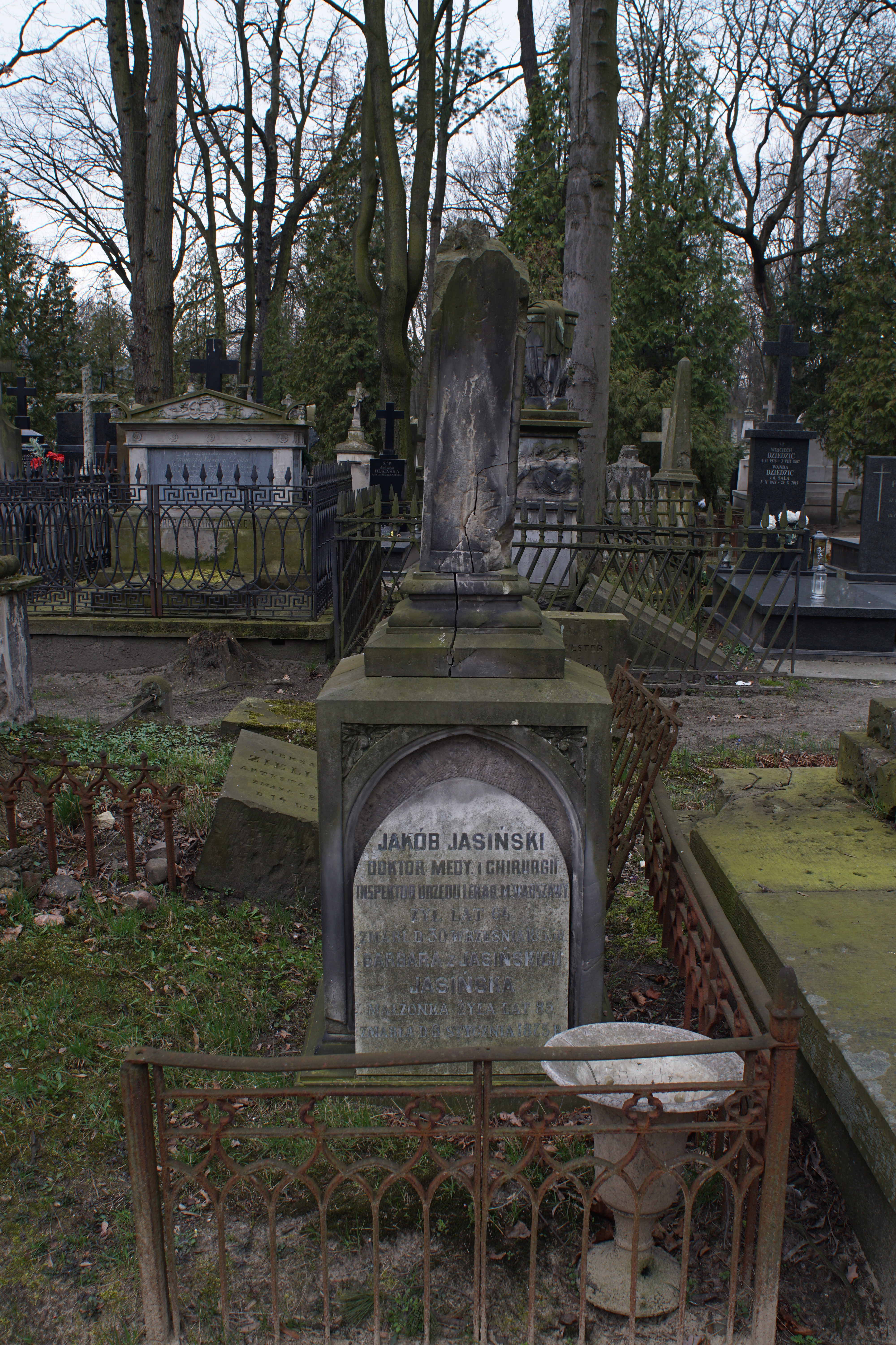 The grave of Jakub Jasiński at the Powązki Cemetery (section 8, row 3, grave 21)